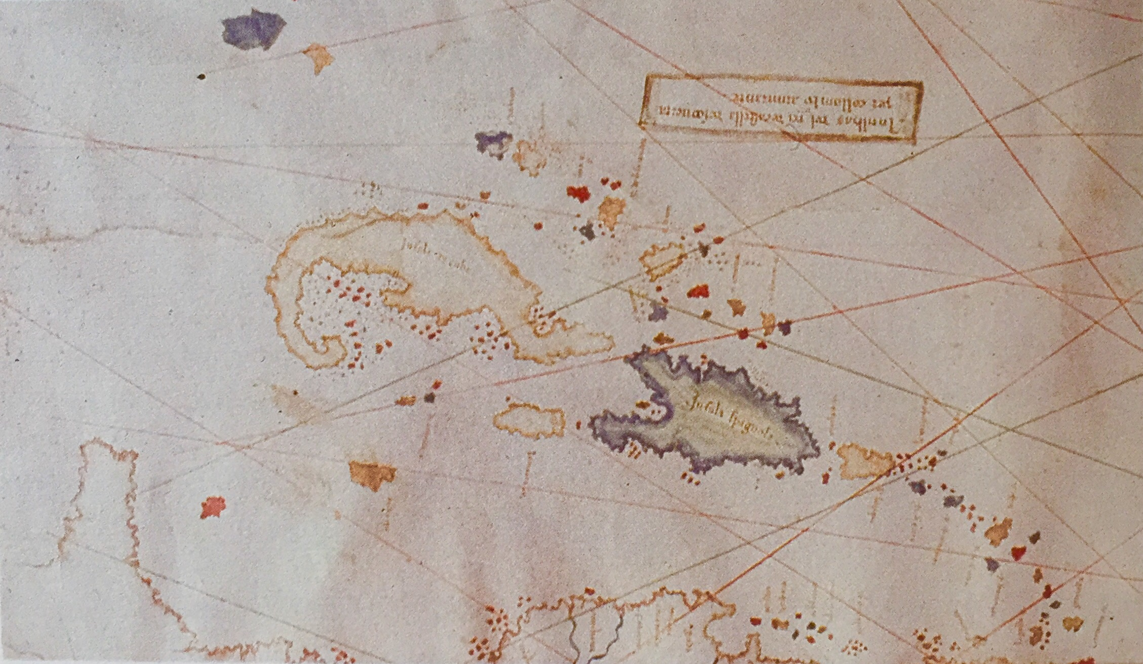 The Pesaro Planisphere, ca. 1505. Detail of the Caribbean region.